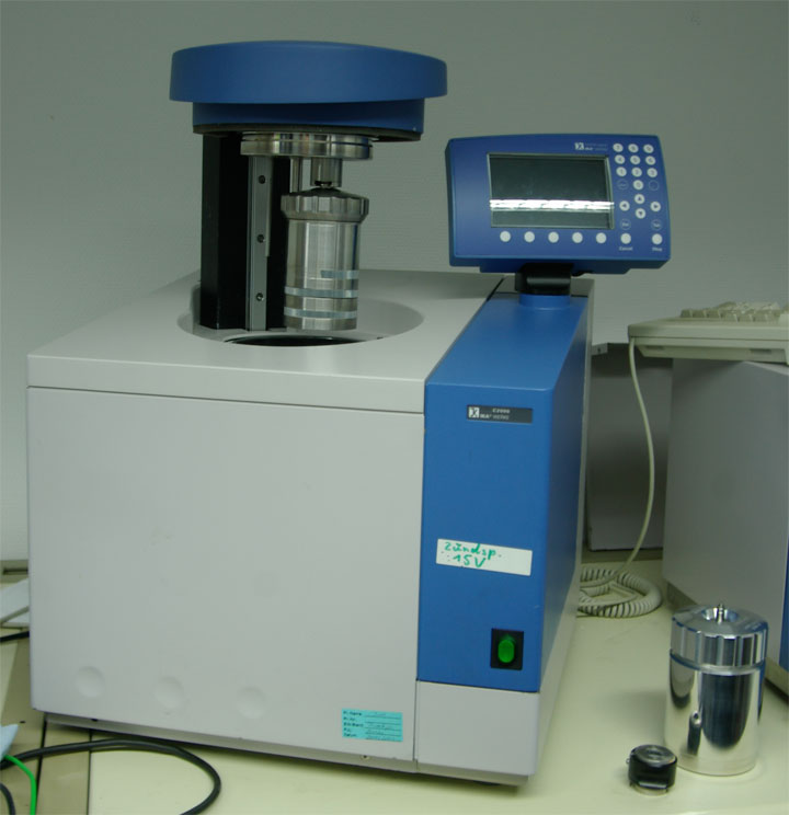 Bomb calorimeter with bomb